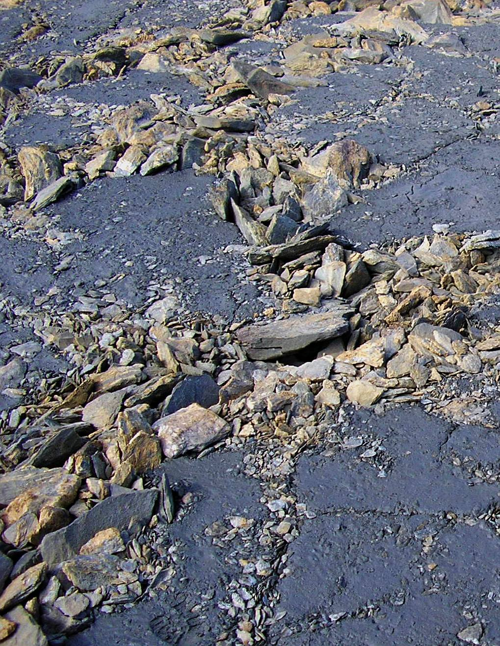 Punta Bagnà (3.129 m; Cottian Alps, french-italian border): blackish ground near the summit